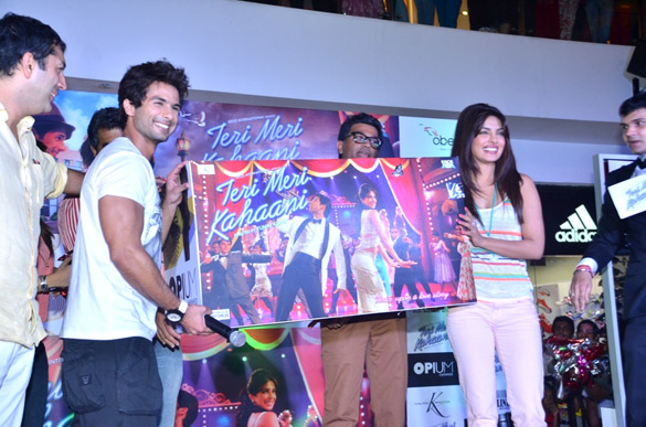 Launch of OPIUM Eyewear's 'Teri Meri Kahaani' collection